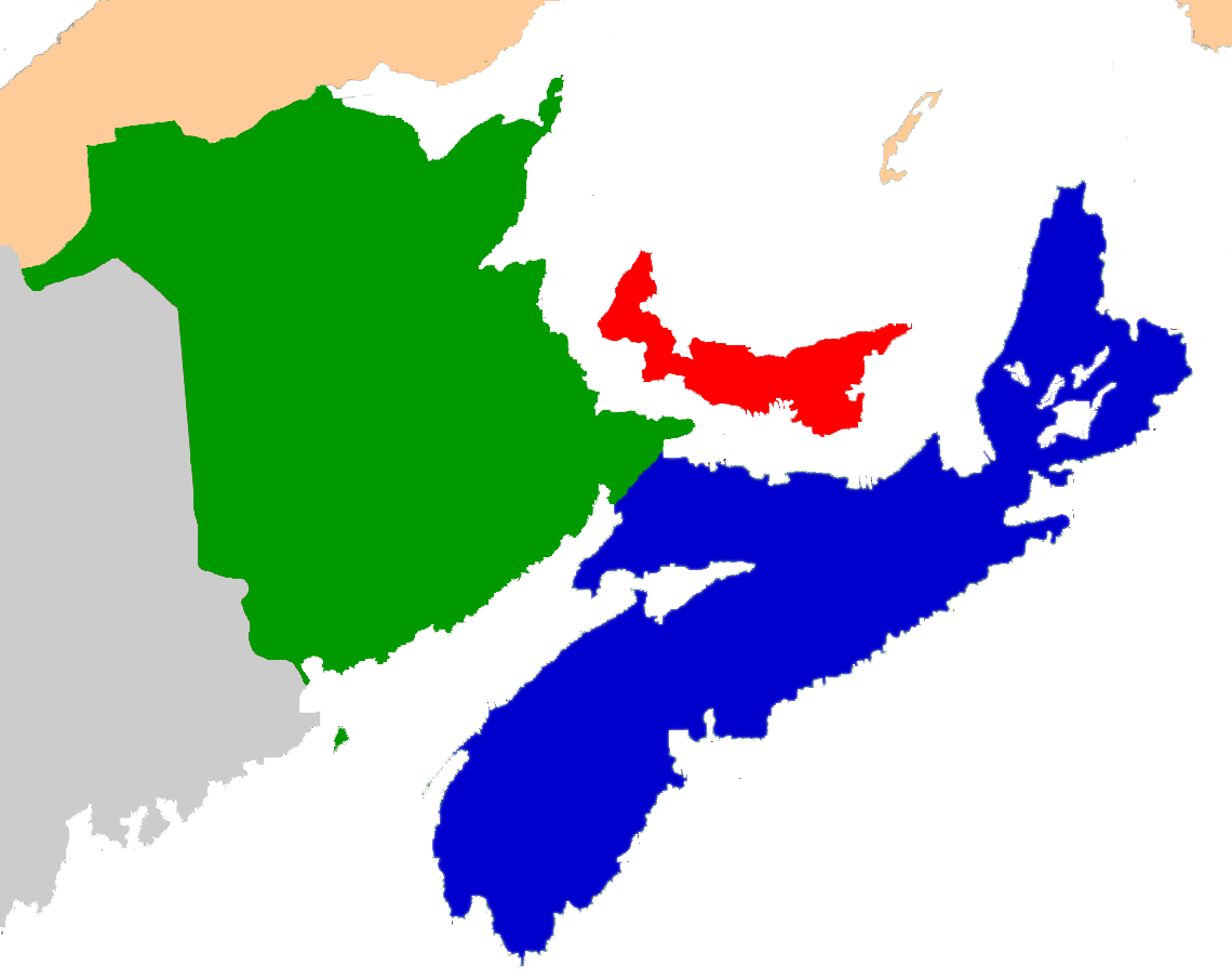 Map of Maritime Provinces for stub icon